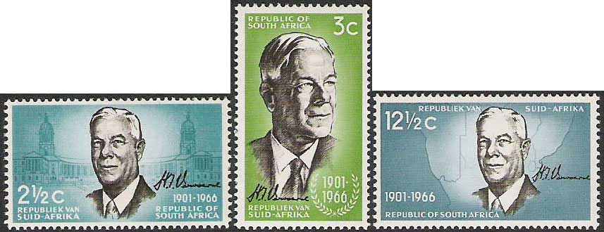 Postage stamps of South Africa in commemoration of Hendrik Frensch Verwoerd, design Irmin Henkel, 1966